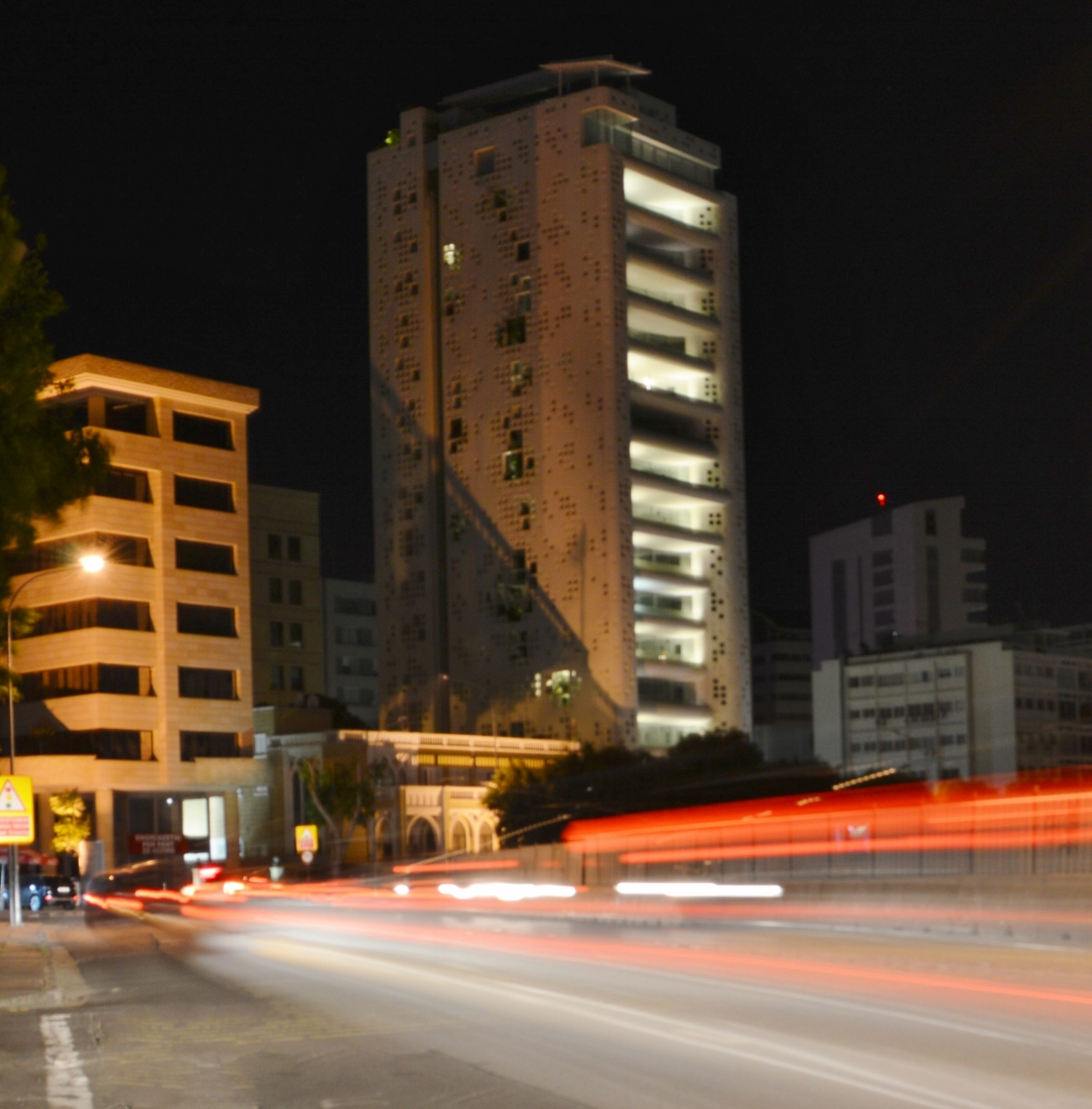 Stasinou Avenue Tower 25 Jean Nouvel skyscraper night shot Nicosia Republic of Cyprus